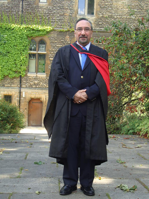 Homa katouzian